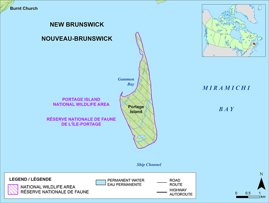 Map of the St.-Laurent-Gulf